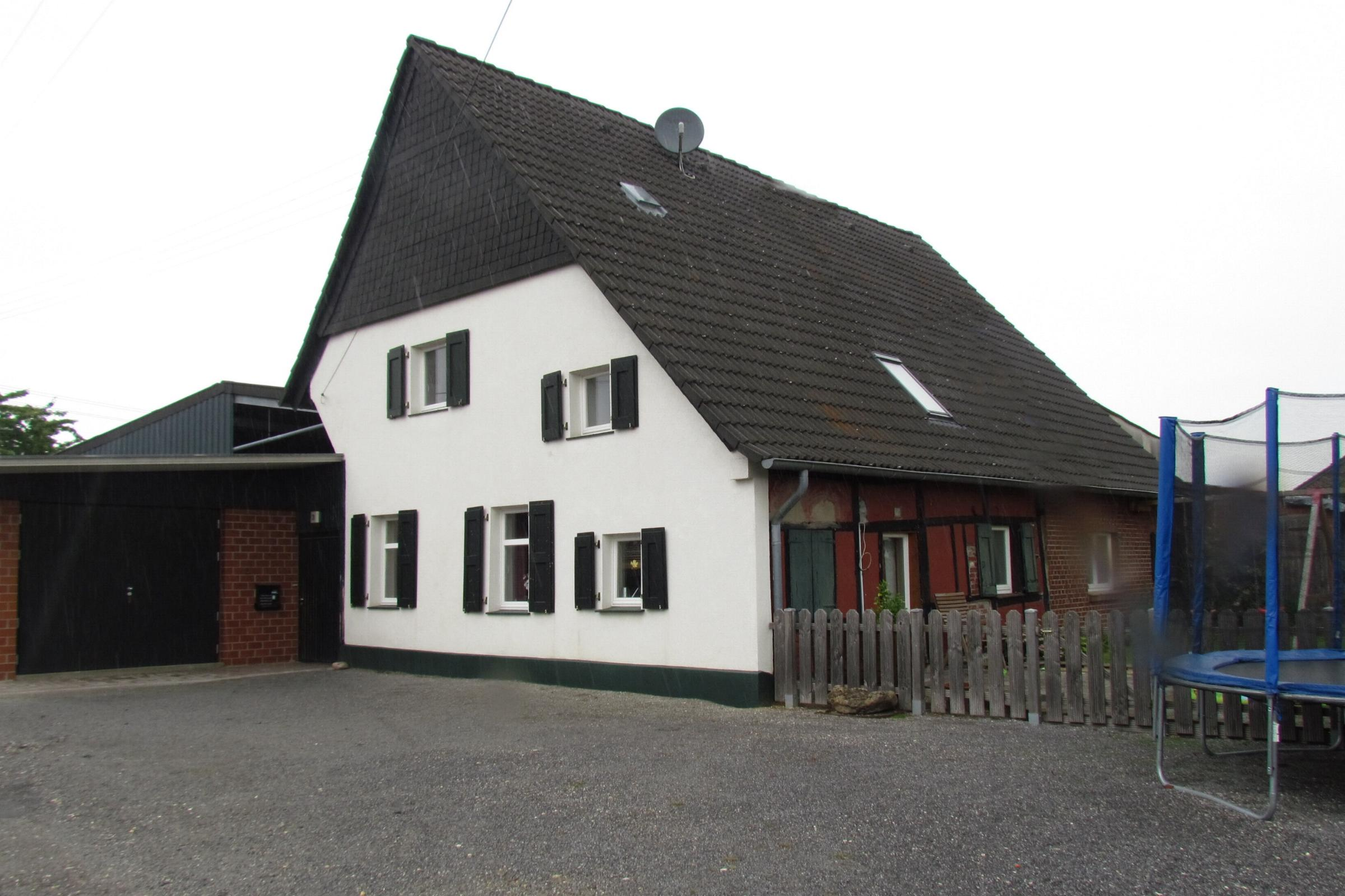 This is a photograph of an architectural monument.It is on the list of cultural monuments of Korschenbroich